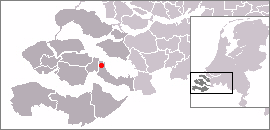 Location of Yerseke Moer in the Netherlands. Image based on which is in the public Domain